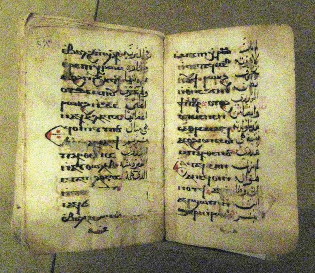 Ink and colored inks on parchment Coptic, possibly from the Monastery of Dayr Al-Suryan, Wadi Natrun Written and illustrated 700 - 900, in Egypt Inscribed in Coptic: "Jesus Christ Victorius Location: Metropolitan Museum of Art, New York